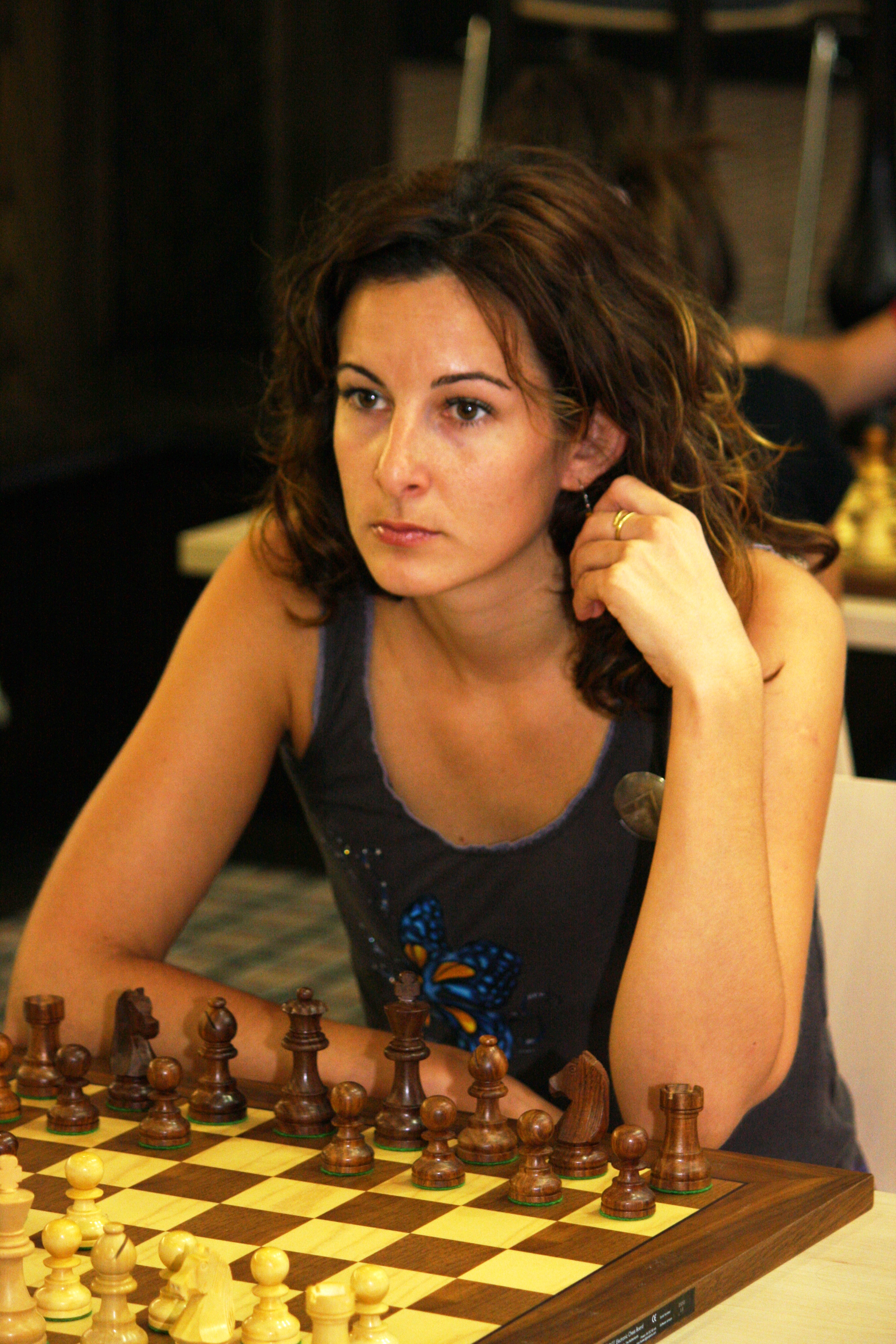 Jana Krivec, Slovene chess player, Woman Grandmaster